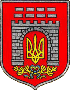 Small coat of arms of Chernivtsi